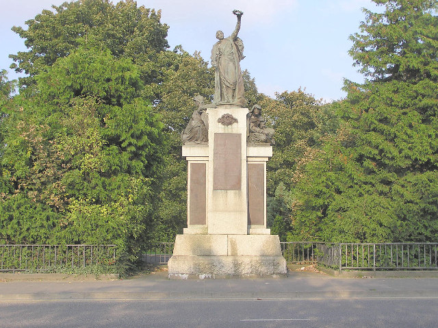 South African War Memorial. The Duchess of Abercorn unveiled the Royal Inniskilling Fusiliers South African War Memorial on the 25th November 1904 in High Street where it remained until the 1960s when it was considered as a traffic hazard and resited to Drumragh Avenue. In grey granite, it is a memorial to the men of the Royal Inniskilling Fusiliers who fell in the Boer war 1899 - 1902.It's former location is indicated in this image 95258. See image of crest here 1019441.